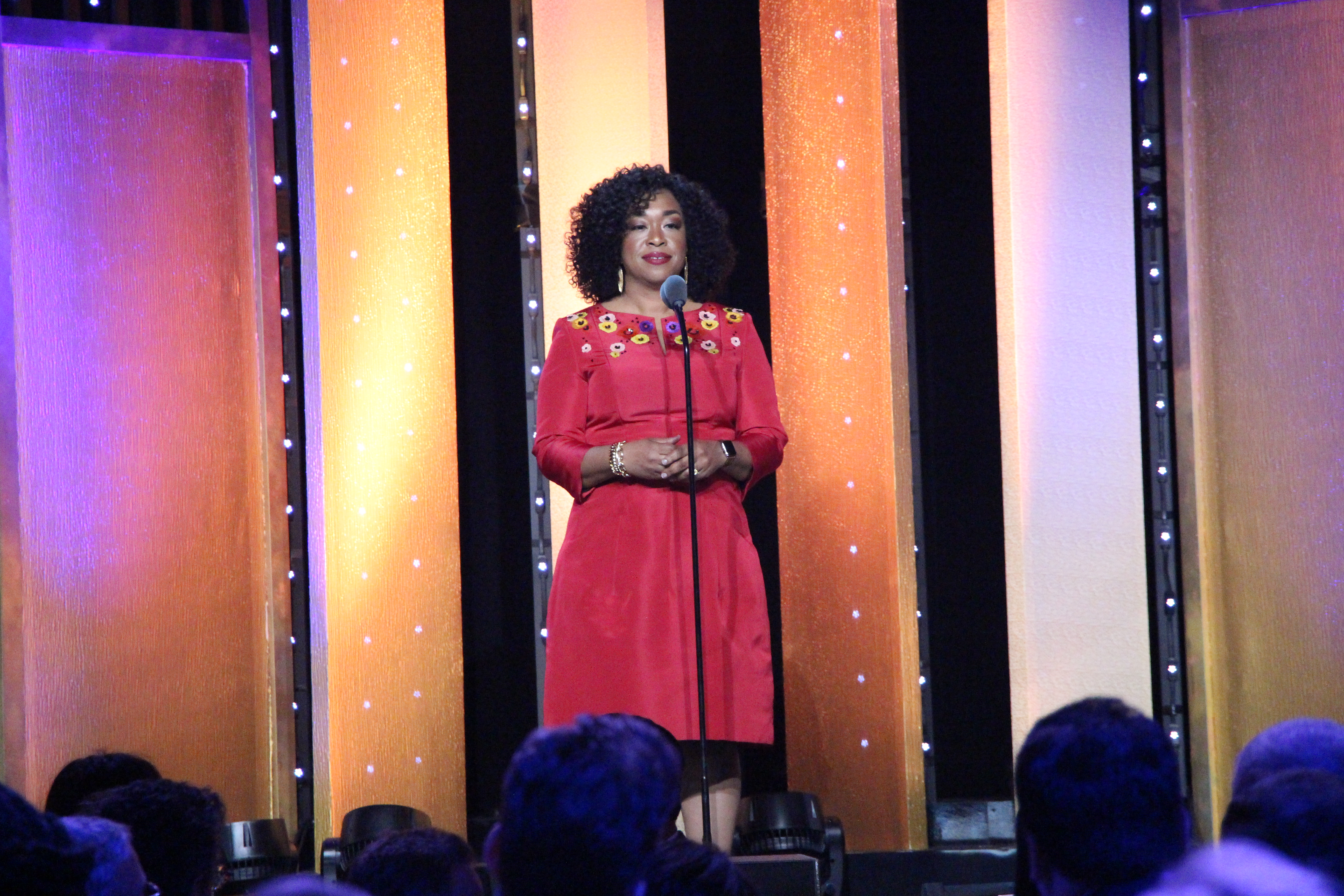 Shonda Rhimes presented a reflection on the past 75 years in the entertainment industry. (Photo/Sarah E. Freeman/Grady College, in New York City, Georgia, on Saturday, May 21, 2016)